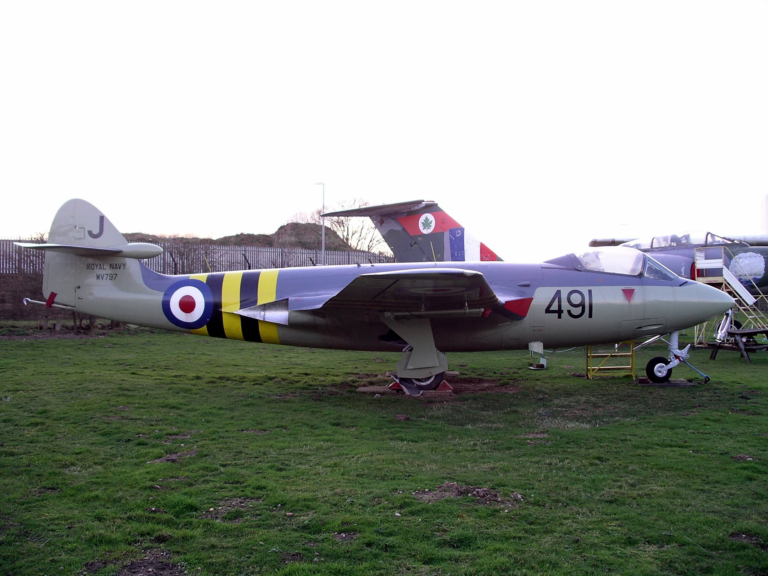 Photo taken by me on 9 March 2007 of a Armstrong Whitworth Sea Hawk FGA.6 (serial number WV797) at the Midland Air Museum, near Baginton, Warwickshire, England.